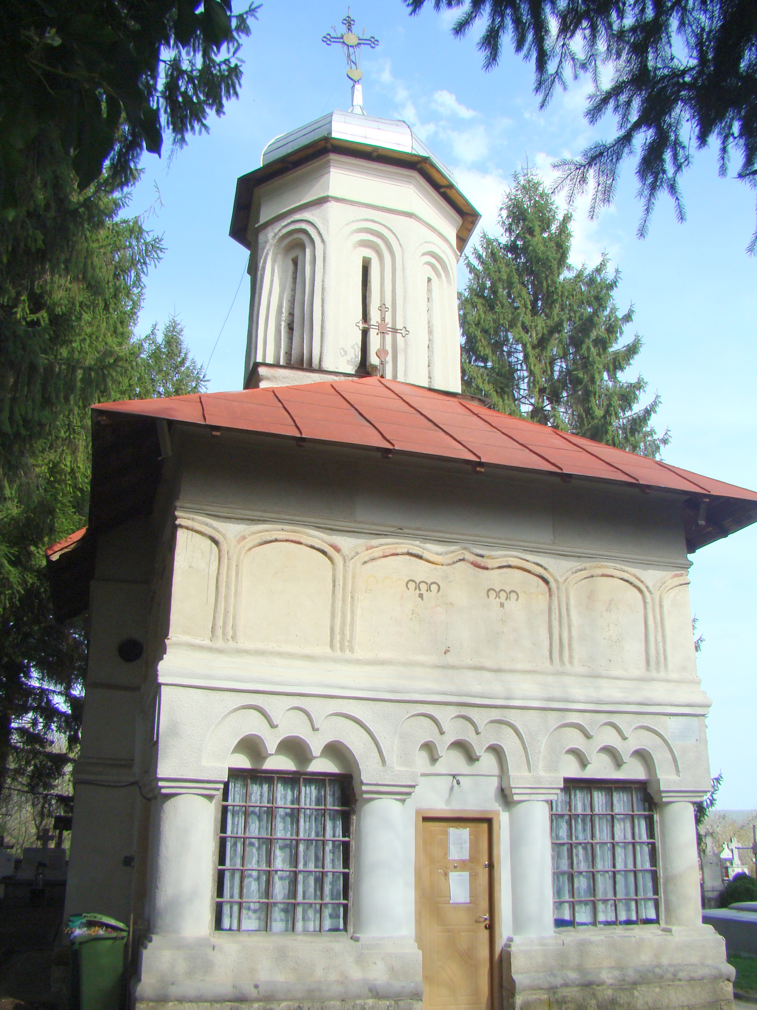 St Apostles' Church in Cartiu, Gorj county, Romania